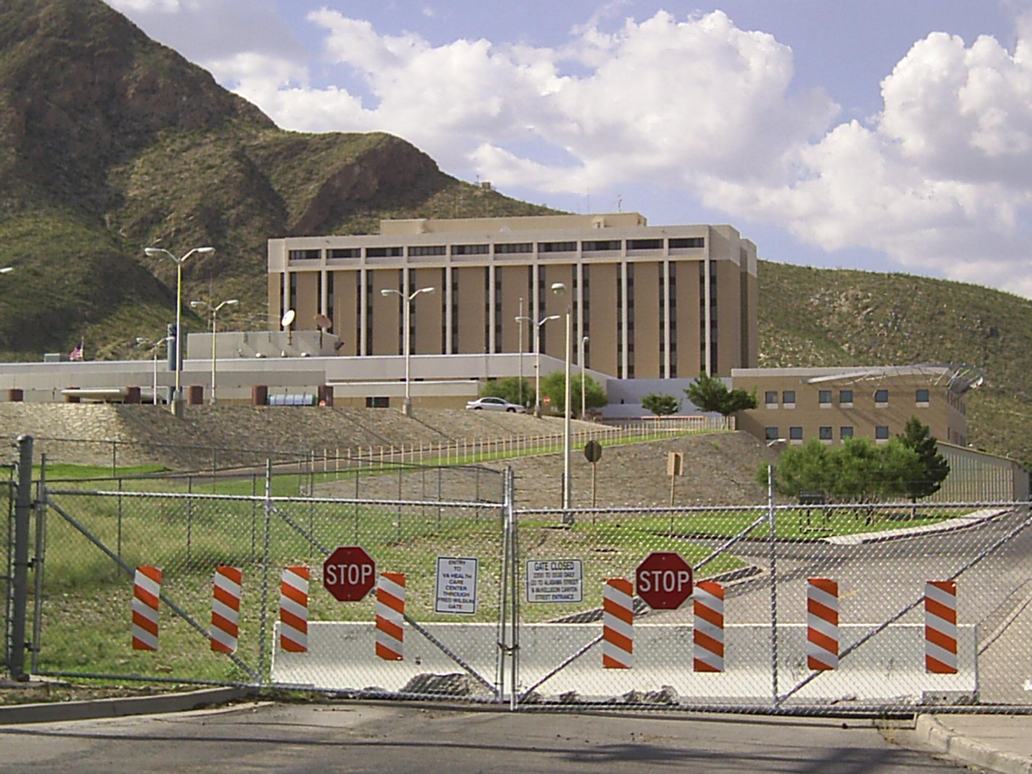 William Beaumont Army Medical Center, shown here outside the base at the now decommissioned Piedras Gate Entrance facing north. The VA clinic is located in the foreground of this image. The Piedras Gate, formally one of the primary entrances onto this part of the base, was permanently closed following the 9/11 attacks.